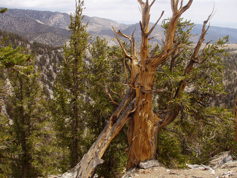 Bristlecone Pines (Pinus longaeva), Schulman Grove, Inyo National Forest, eastern California.